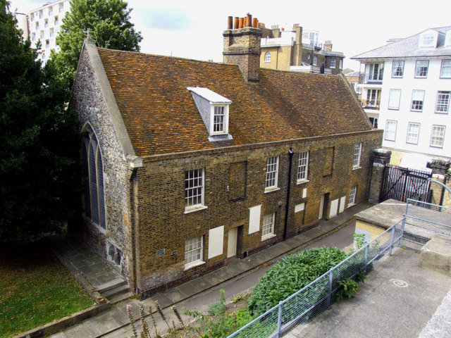 Milton Chantry 14th Century building situated in New Tavern Fort gardens in Gravesend. Has been used as a pub, hospital and barracks. During the second world war, the basement was used as a gas decontamination chamber. It now houses a museum.